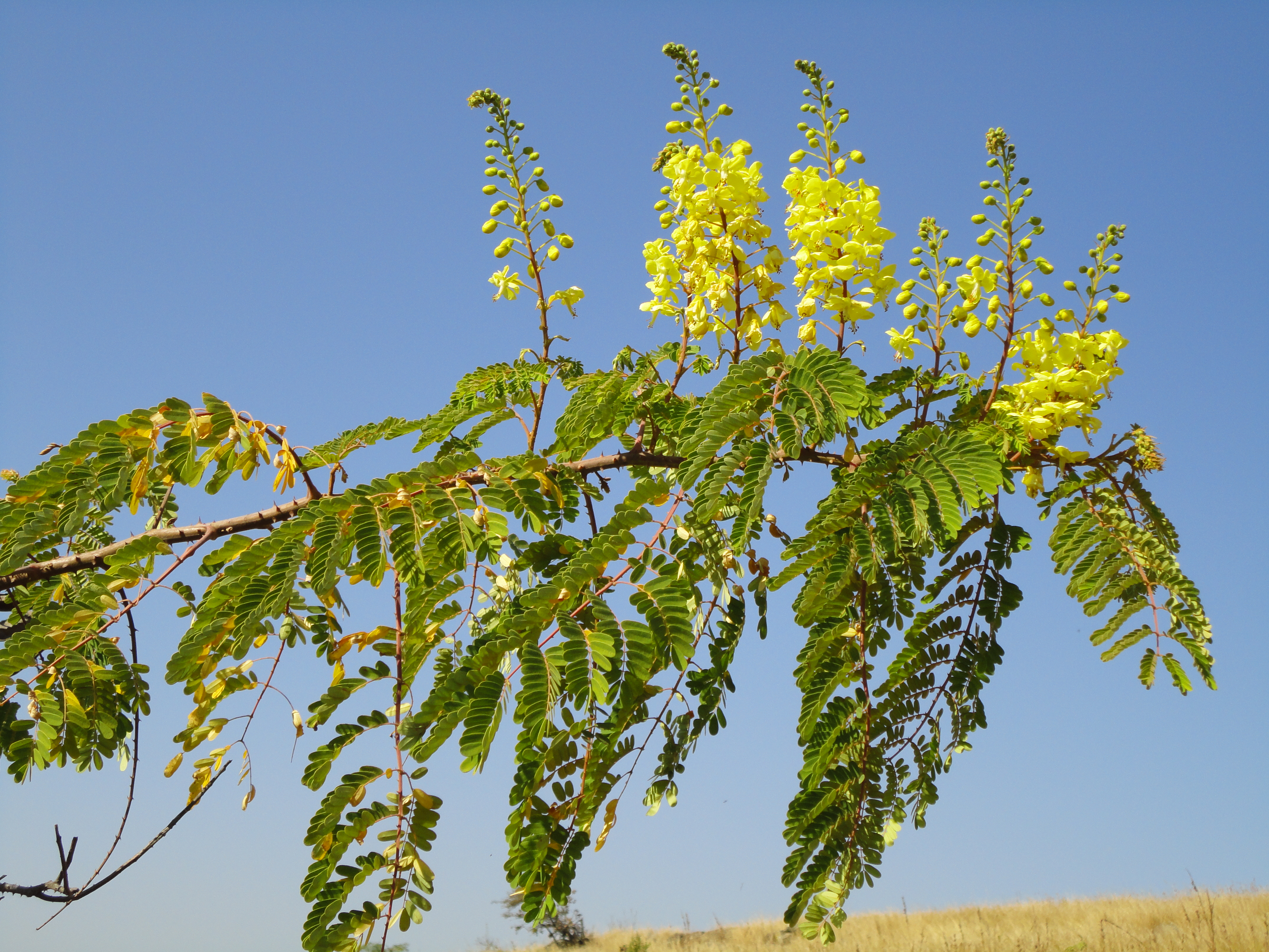 Inflorescences of the invasive Mauritius thorn, Louwsburg region, KwaZulu-Natal